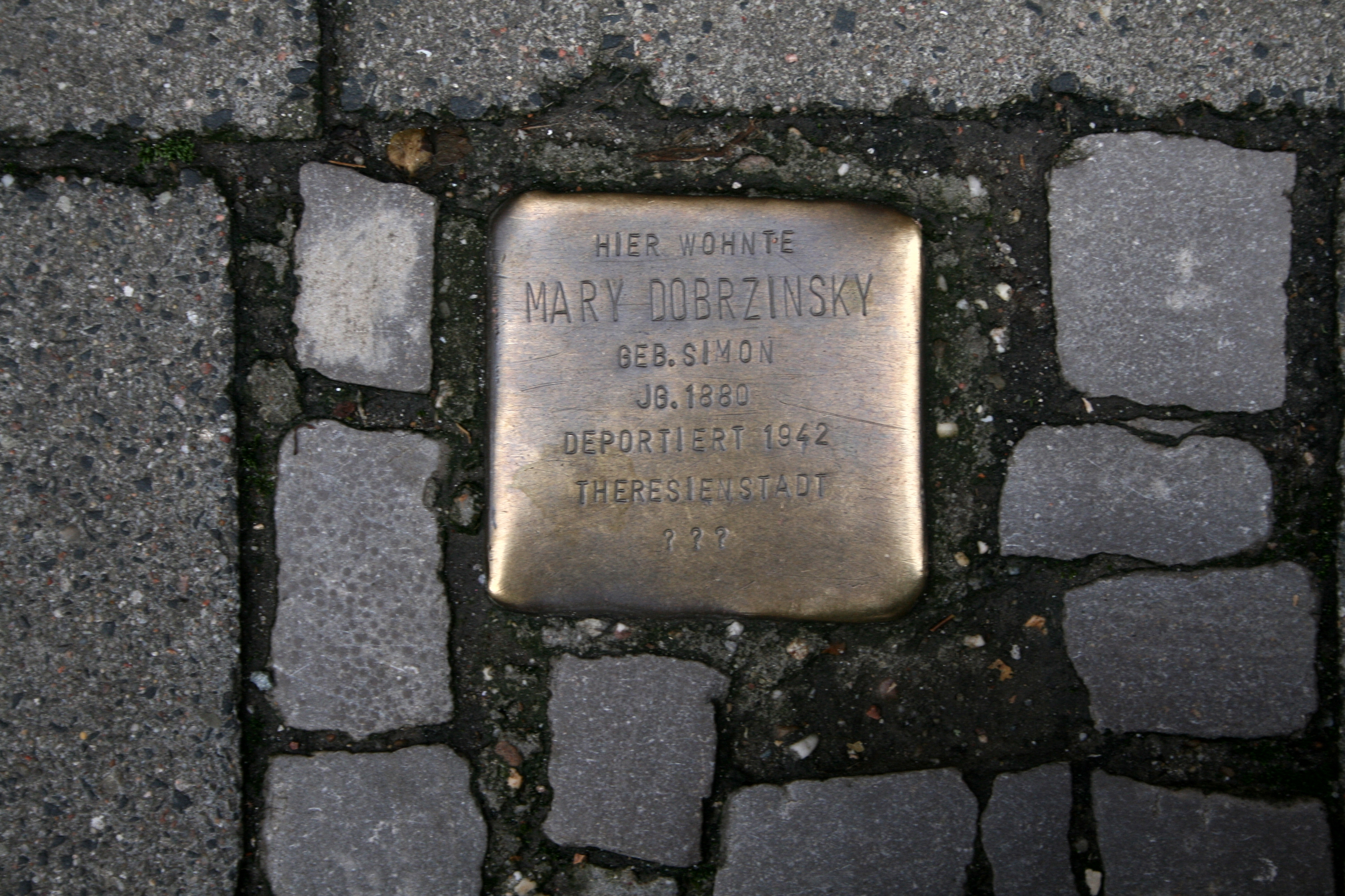 Stolperstein for Mary Dobrzinsky in Hamburg-Bergedorf, August-Bebel-Straße 1